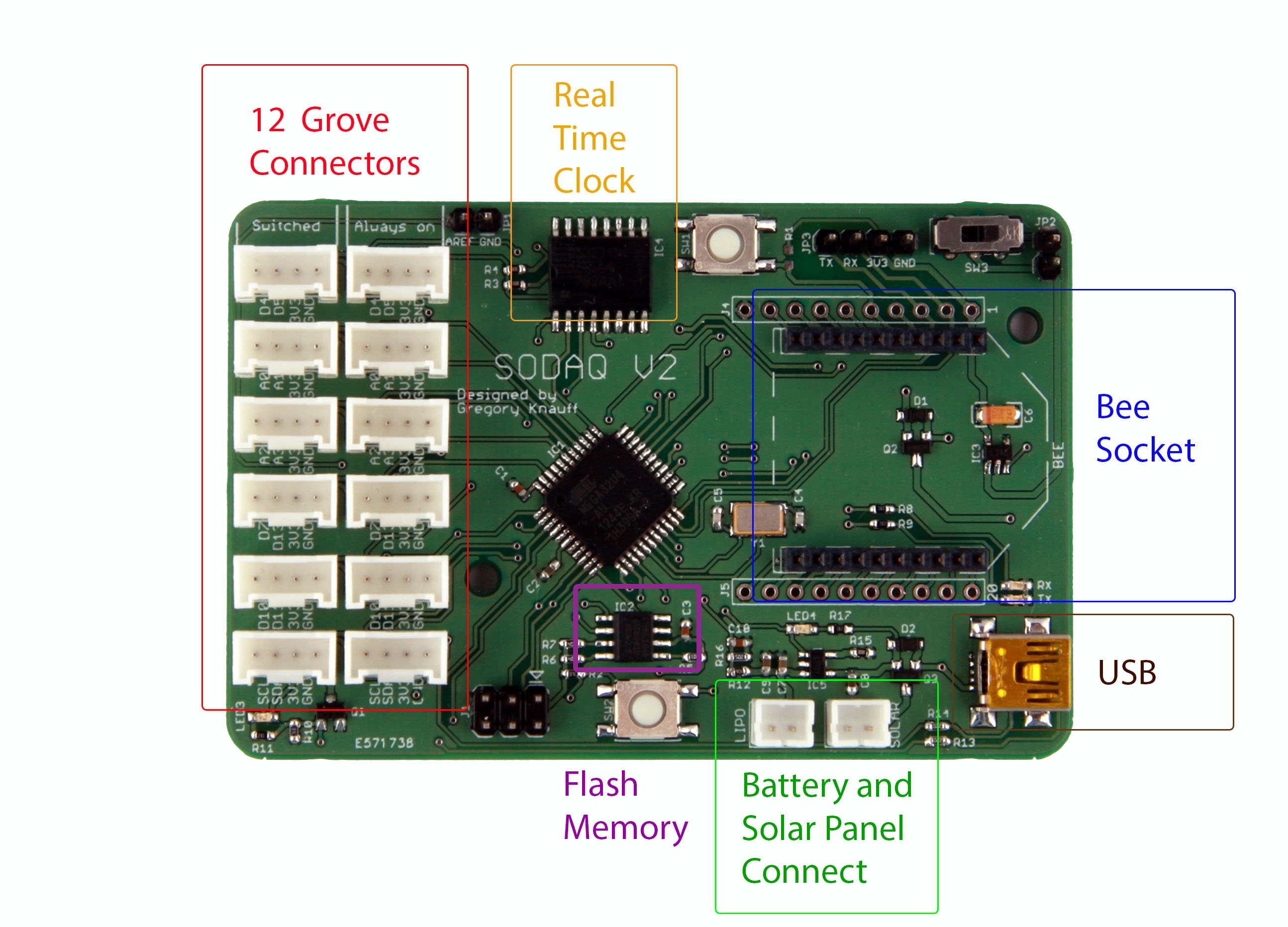 SODAQ, an Arduino Compatible Solar Powered sensor board